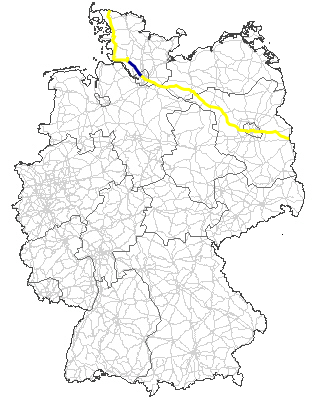 Map of Germany with the route of Federal Road nr. 5